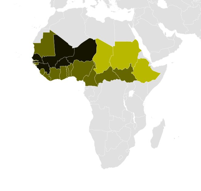 Fula people, estimated to be between 20-25 million, are widely distributed in the Sahel and West Africa. Dark green: majority or one of the largest ethnic group Medium green: a major or significant ethnic group Light green: a minority ethnic group